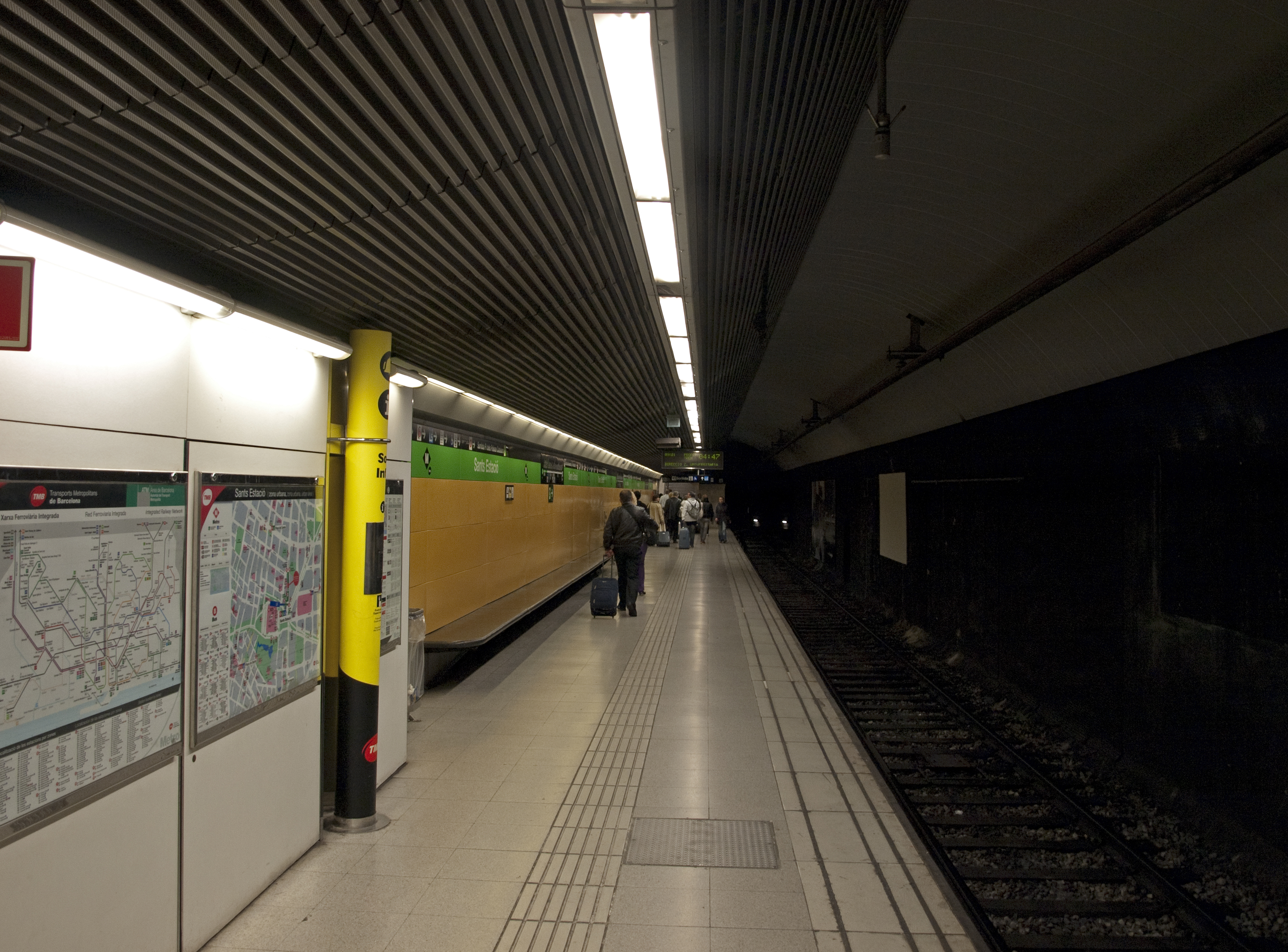 Sants Estacio station, Line L3